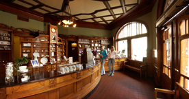 The interior of the former Swan Pharmacy in Ålesund, now housing Jugendstilsenteret. Source: Jugendstilsenteret Photo: Dag Lausund/Jugendstilsenteret